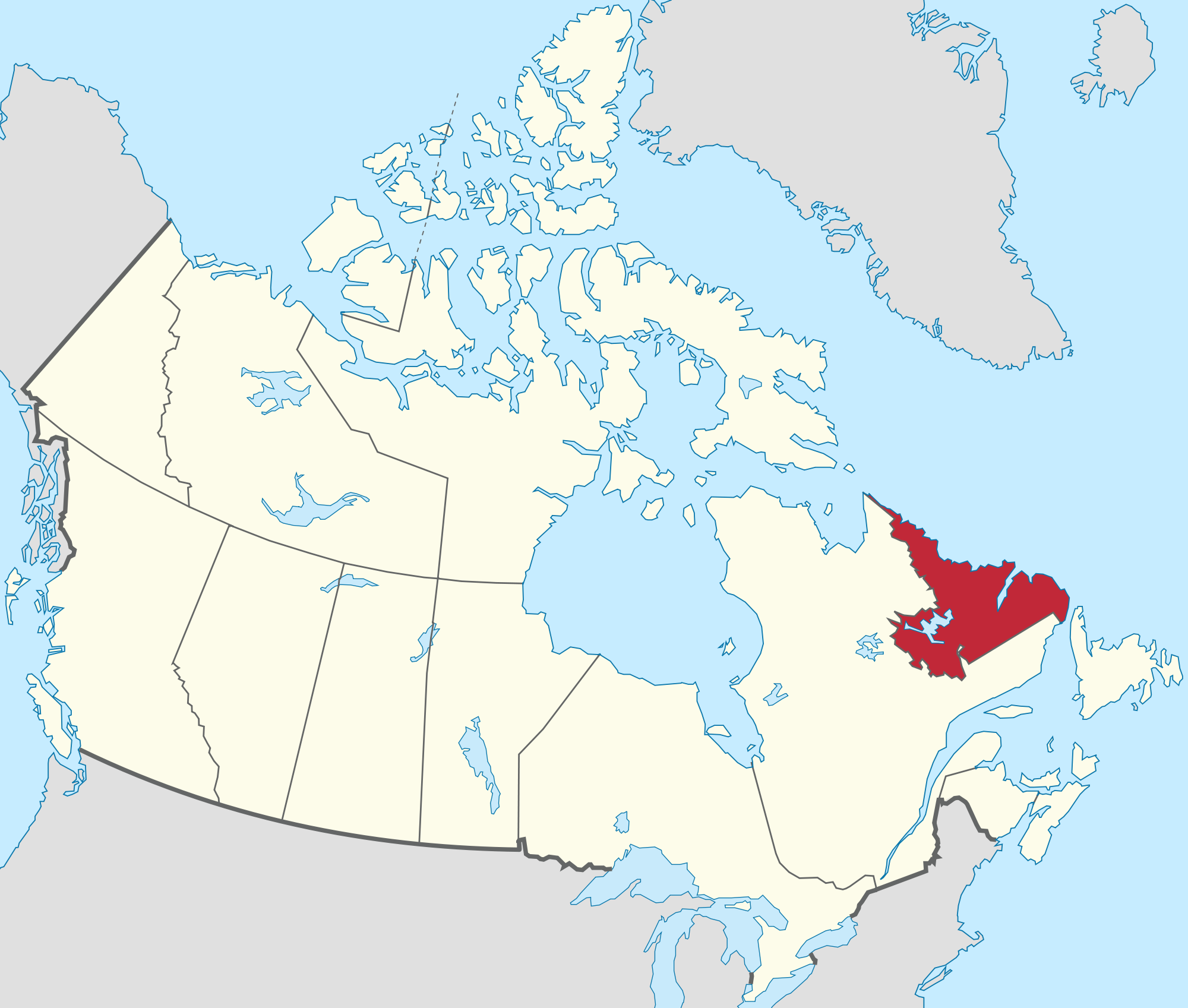 Labrador region of Canadian Province of "Newfoundland and Labrador"; modification of File:Newfoundland and Labrador in Canada.svg